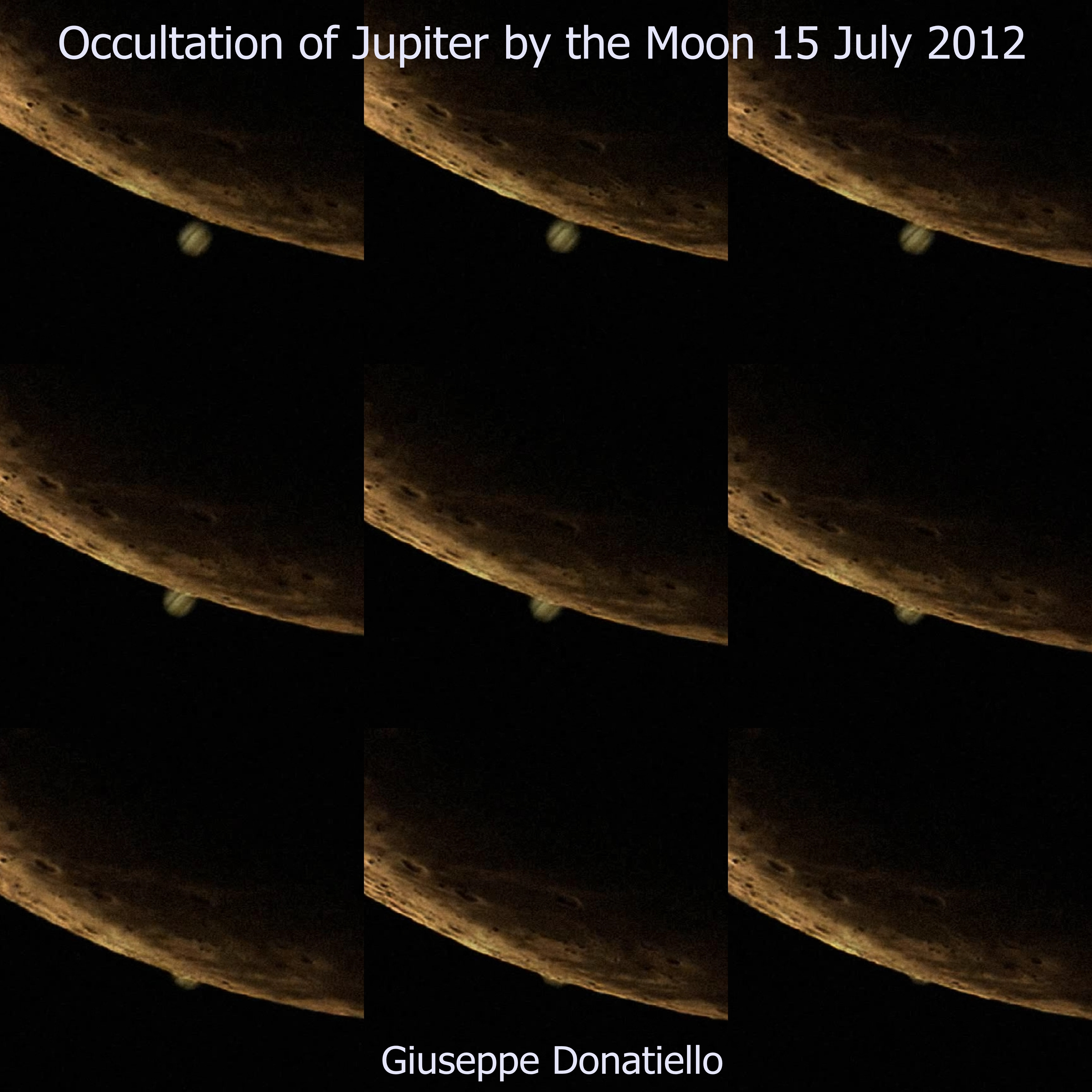 Jupiter Occultation (15th July 2012) On July 15, 2012, the Moon occulted planet Jupiter. The event was visible from Italy just before dawn. In the minutes of the event, the two celestial bodies were high about 15 degrees above the eastern horizon.